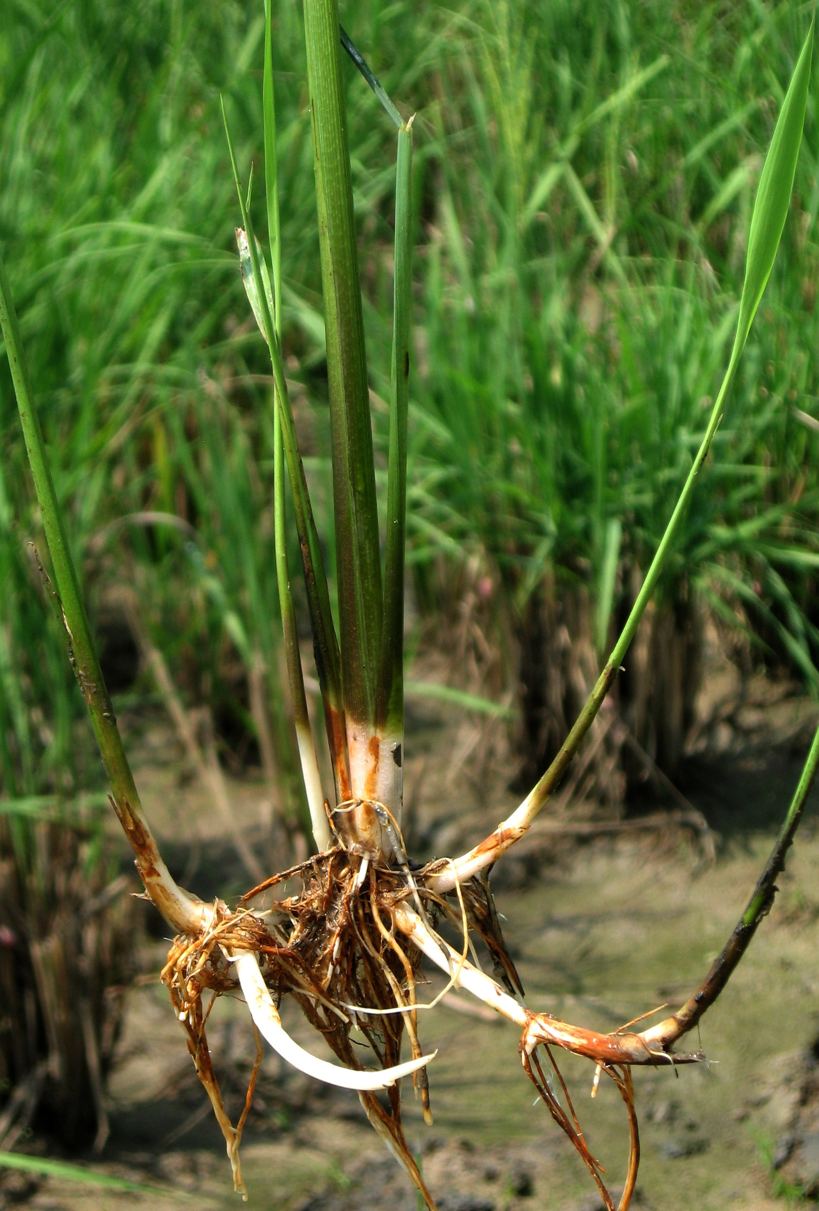 Rice plant uprooted to display its rhizomes. Rhizome genes were donated by Oryza longistaminata through wide hybridization. This plant was in a rice breeding nursery belonging to the Yunnan Academy of Agricultural Sciences in Hainan Province, PRC.